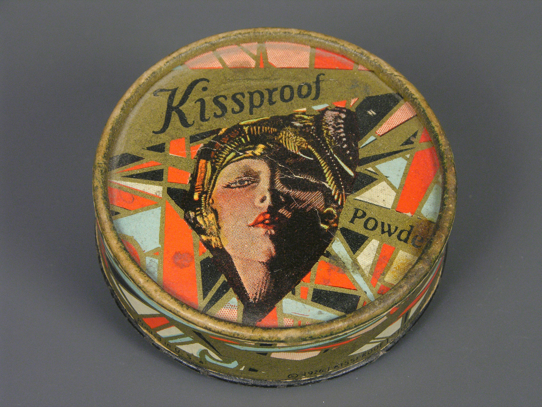 Kissproof powder makeup carton container 1926